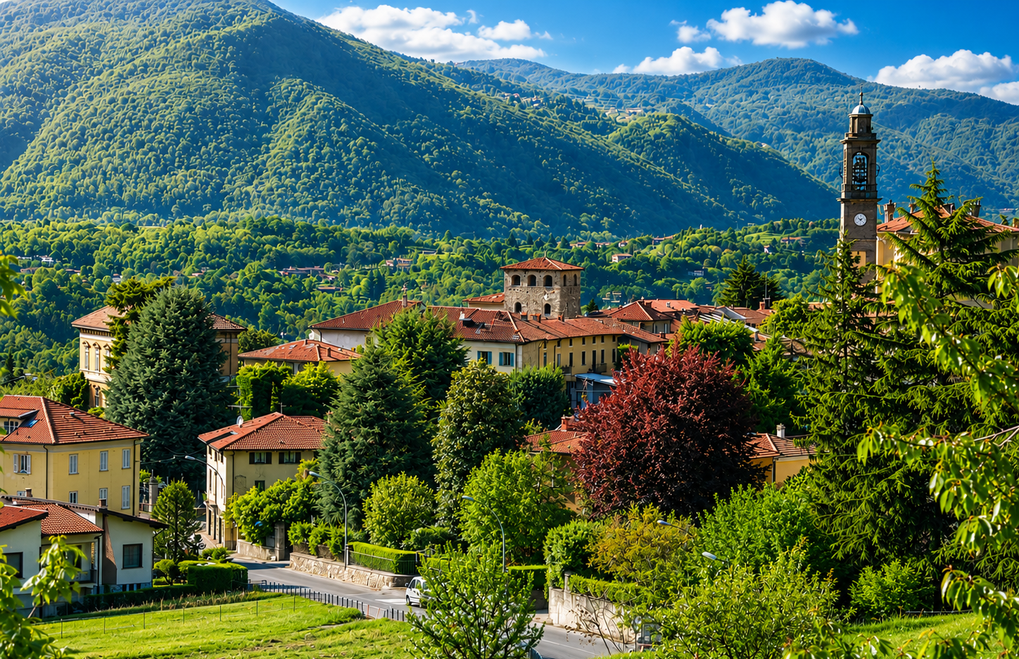 The centre of Villa d'Adda seen from San Zenone St.